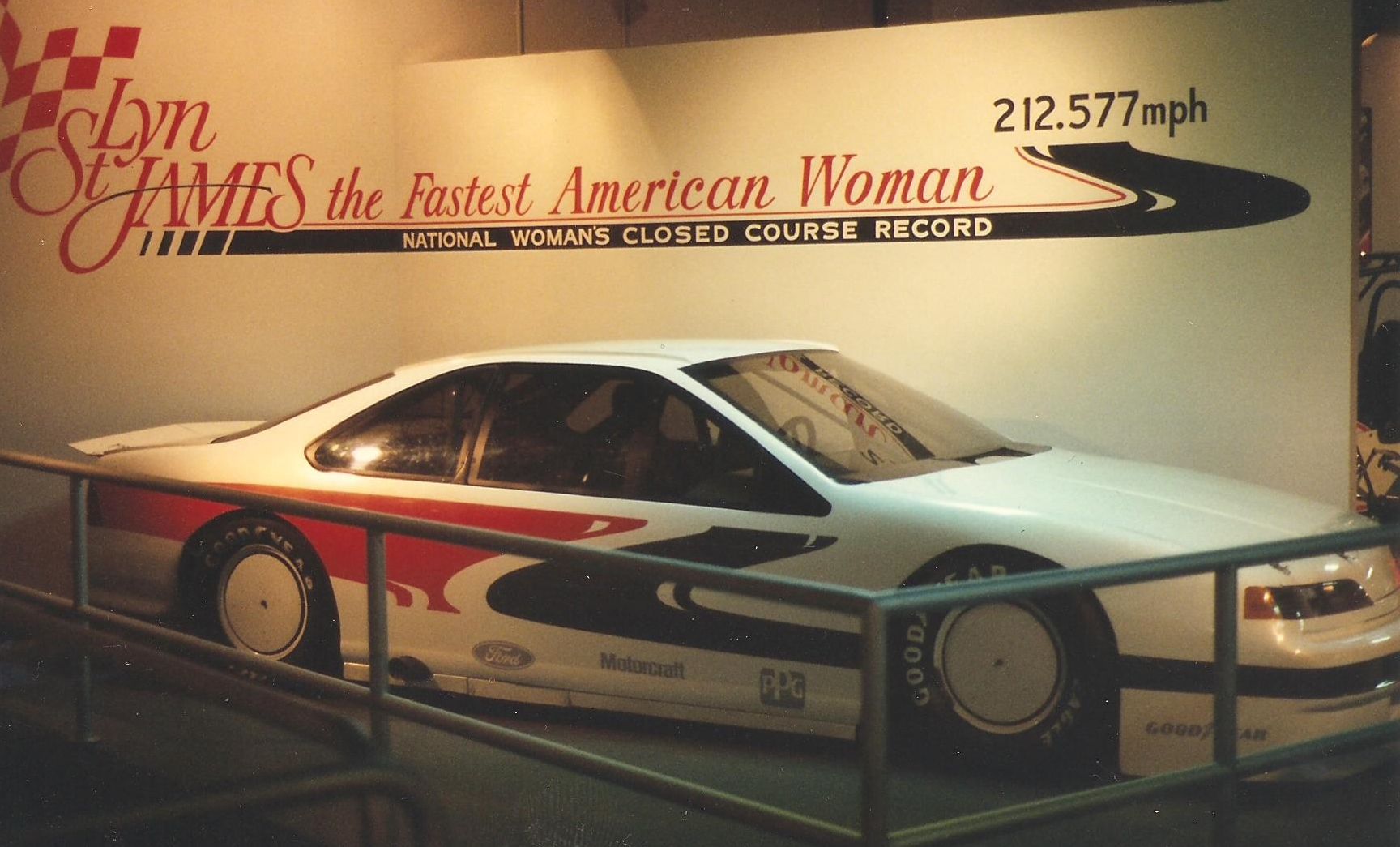 Race car driven by Lyn St. James in female closed circuit speed record attempts